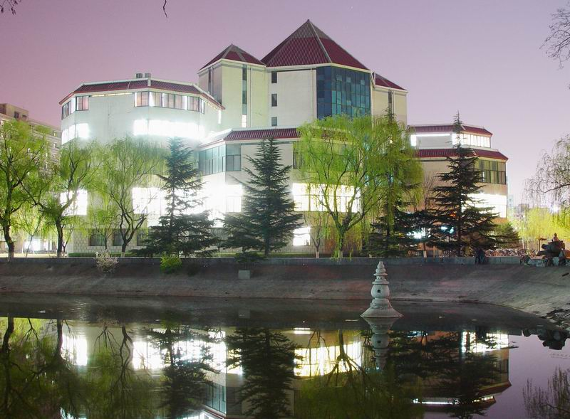 library at BJTU (beijing jiaotong univ)